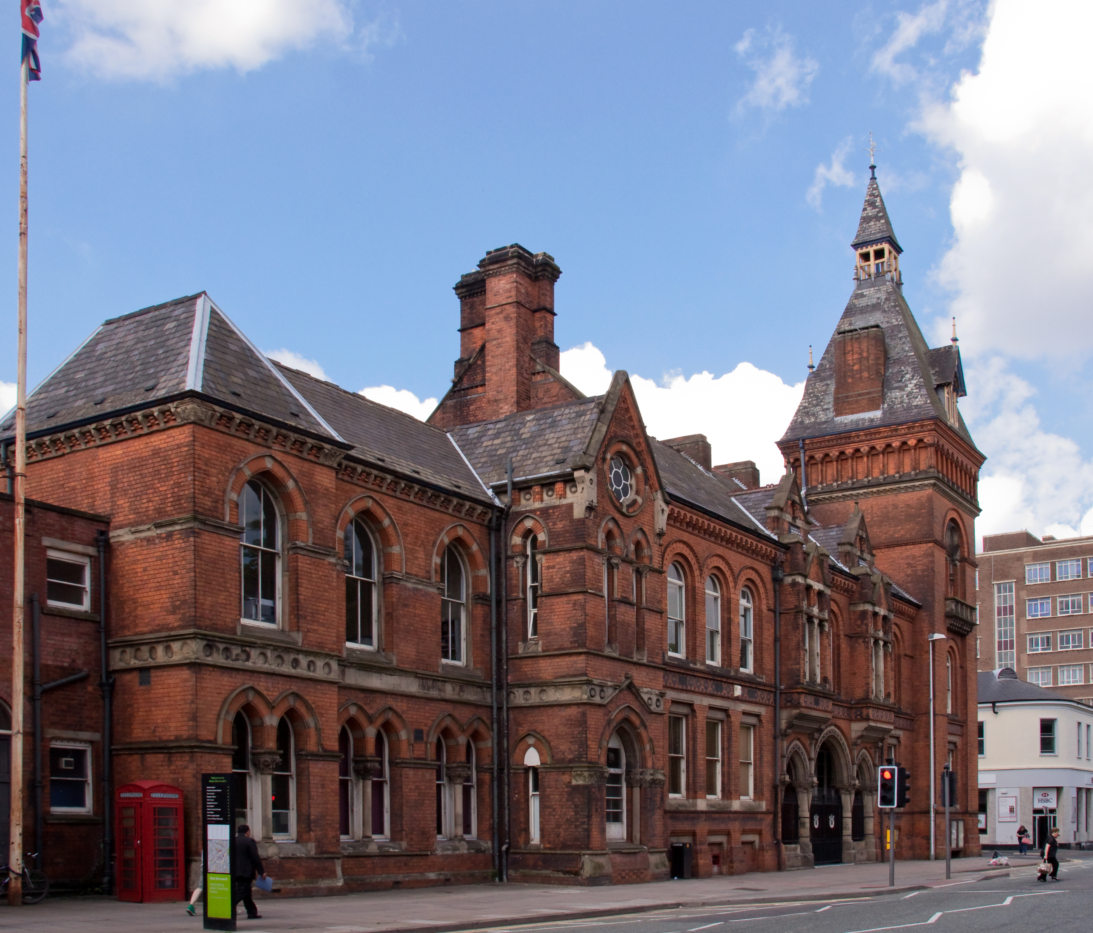 West Bromwich Town Hall, West Midlands, England.